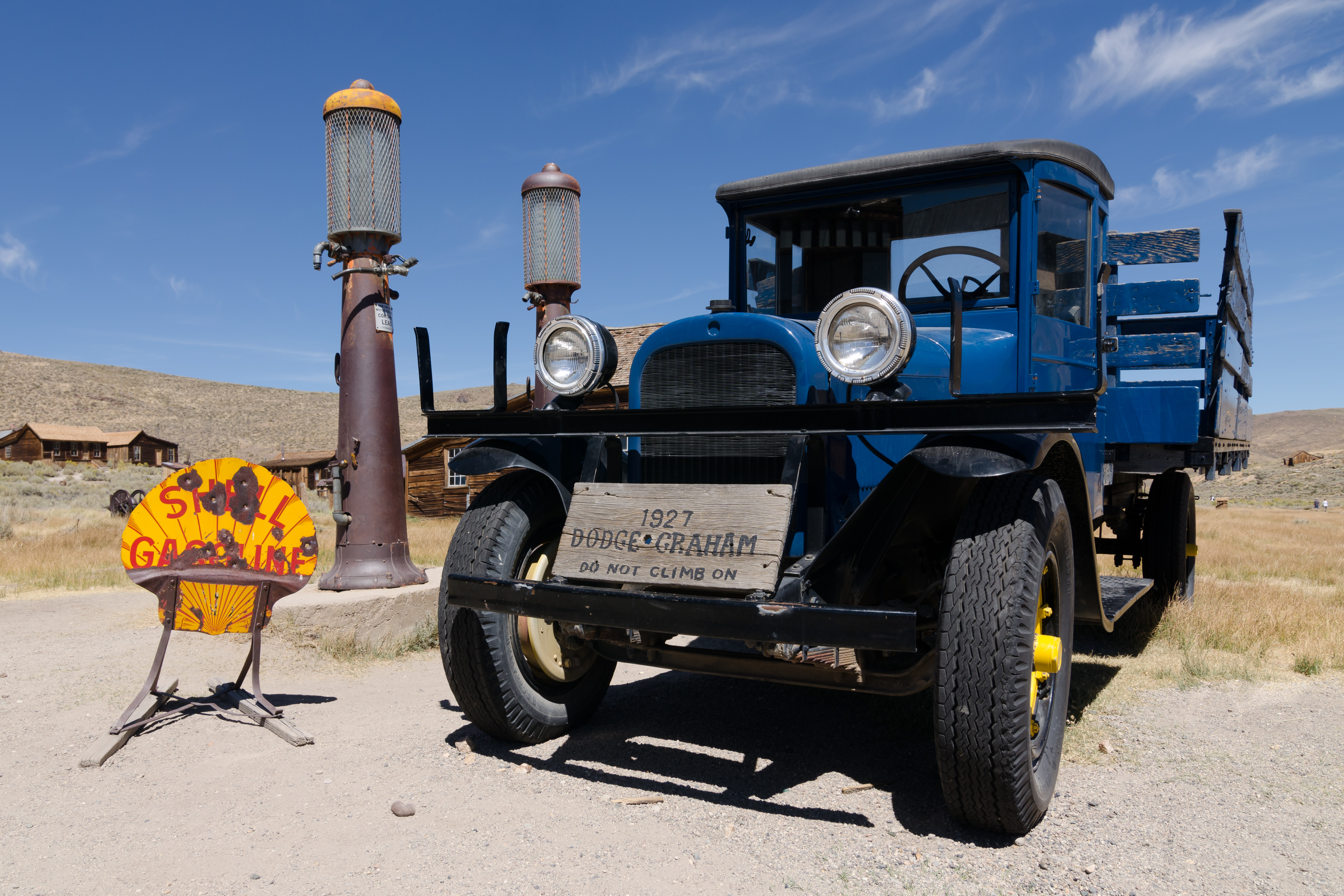 1927 Dodge-Graham at Shell gas pump, Bodie, California.